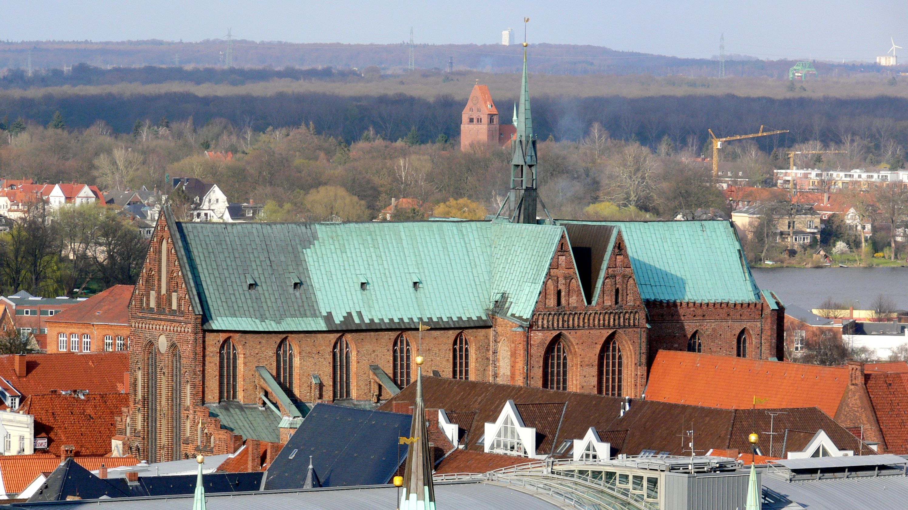 Katharinenkirche, Lübeck (Germany), seen from the tower of St. Peter's Church